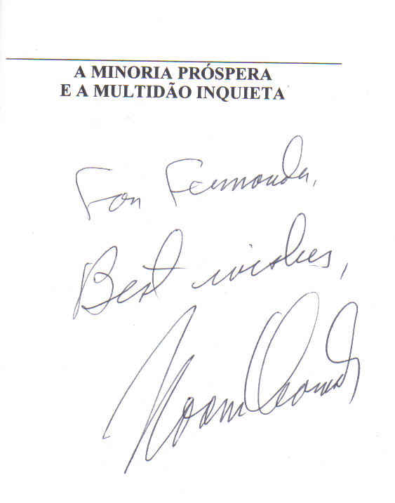 Noam Chomsky's dedication and autograph at a Brazilian edition of his book